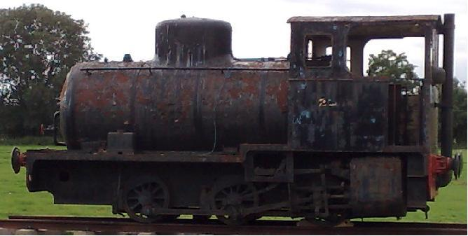 Fireless Loco in a field Near Leicester just outside Blaby